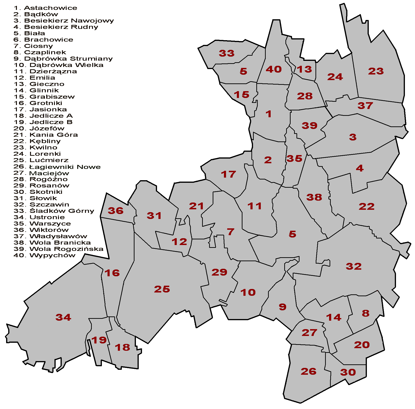 Zgierz Commune - units